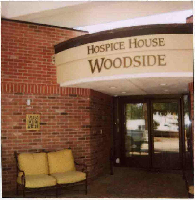 This is a photo that I, Gordon Wayne Watts, took on Saturday afternoon, 03 September 2005, and I release it under the terms of the GNU Free Documentation License, Version 1.2 or any later version published by the Free Software Foundation; with no Invariant Sections, no Front-Cover Texts, and no Back-Cover Texts, etc., as described in the comments here. Description: This is a picture of the entrance-way to the Woodside Hospice House in Pinellas Park (Pinellas County), Florida. It is the famous hospice where Terri Schiavo used to live. The little sign (to the left and on the wall above the two chairs) says: EVERYDAY'SA GIFT During the Terri Schiavo saga, Police prevented demonstrators and the protest/vigil from even getting near this entrance-way, and even during the weeks following Terri's death, police guarded the hospice from retaliation. Now-a-days, however, things have quietened down, and the hospice is open to the public, so long as they don't create a disturbance. Gordon Wayne Watts, Lakeland, Florida, U.S.A. --GordonWattsDotCom 20:59, 4 September 2005 (UTC)